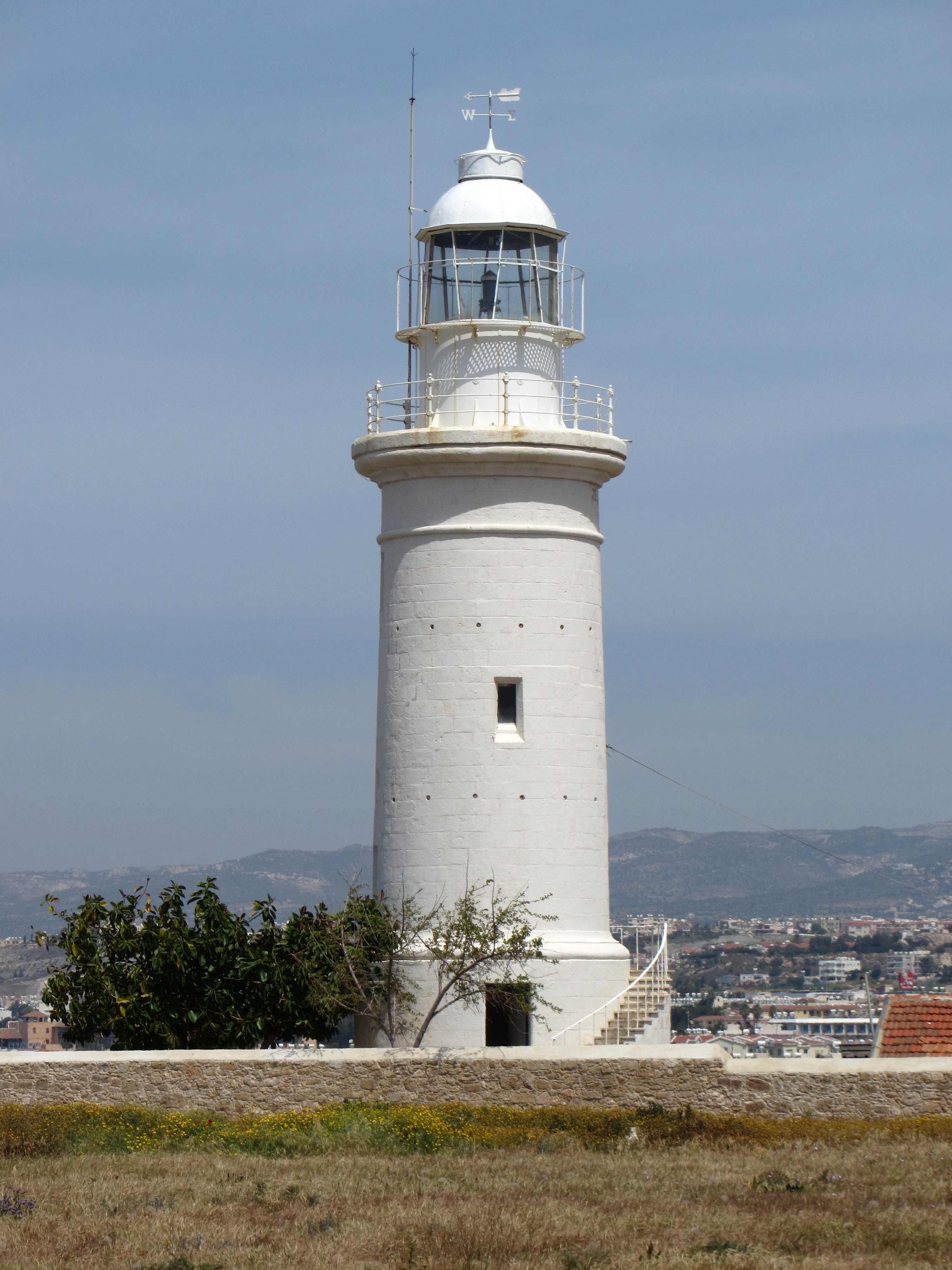 Paphos (Cyprus): Lighthouse, seen from the Archeological Park